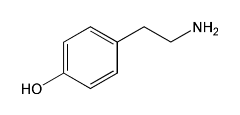 Structure of tyramine, drawn in ChemDraw by User:Walkerma, October 2005.